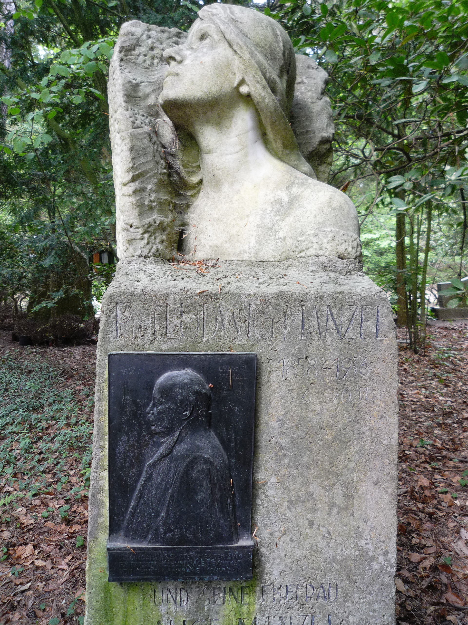 Südwestkirchhof (South-West-churchyard) Stahnsdorf near Berlin.Tombstone for the german sculptor Ludwig Manzel (1858-1936) and his wife.